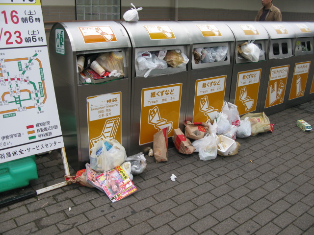 huge trash in Japan